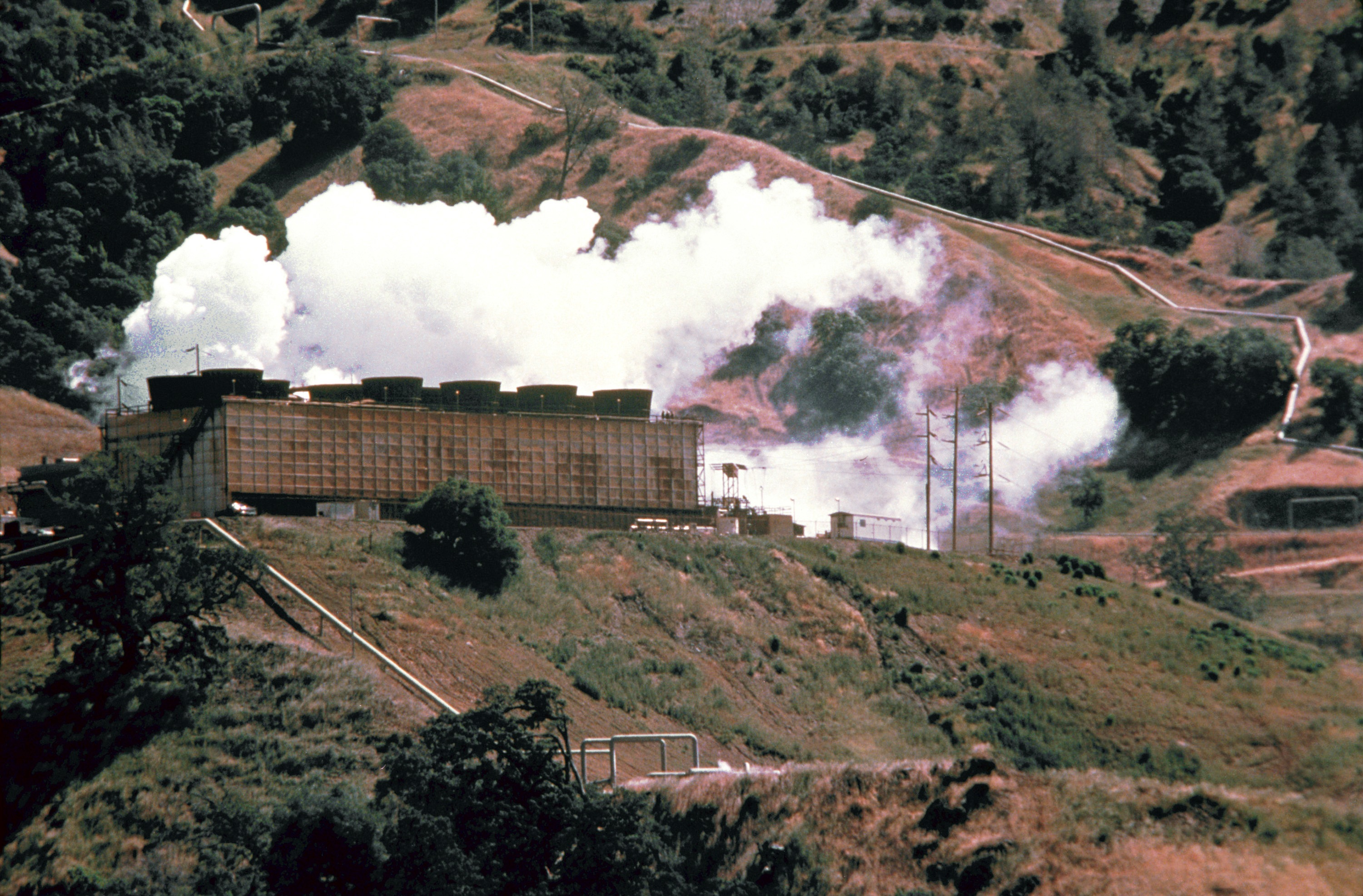 Geyserville: A geothermal power plant taps the geothermal resources of the area and provides steam of thermal energy that can be used to produce electricity similar to conventional oil of steam-electric plants.